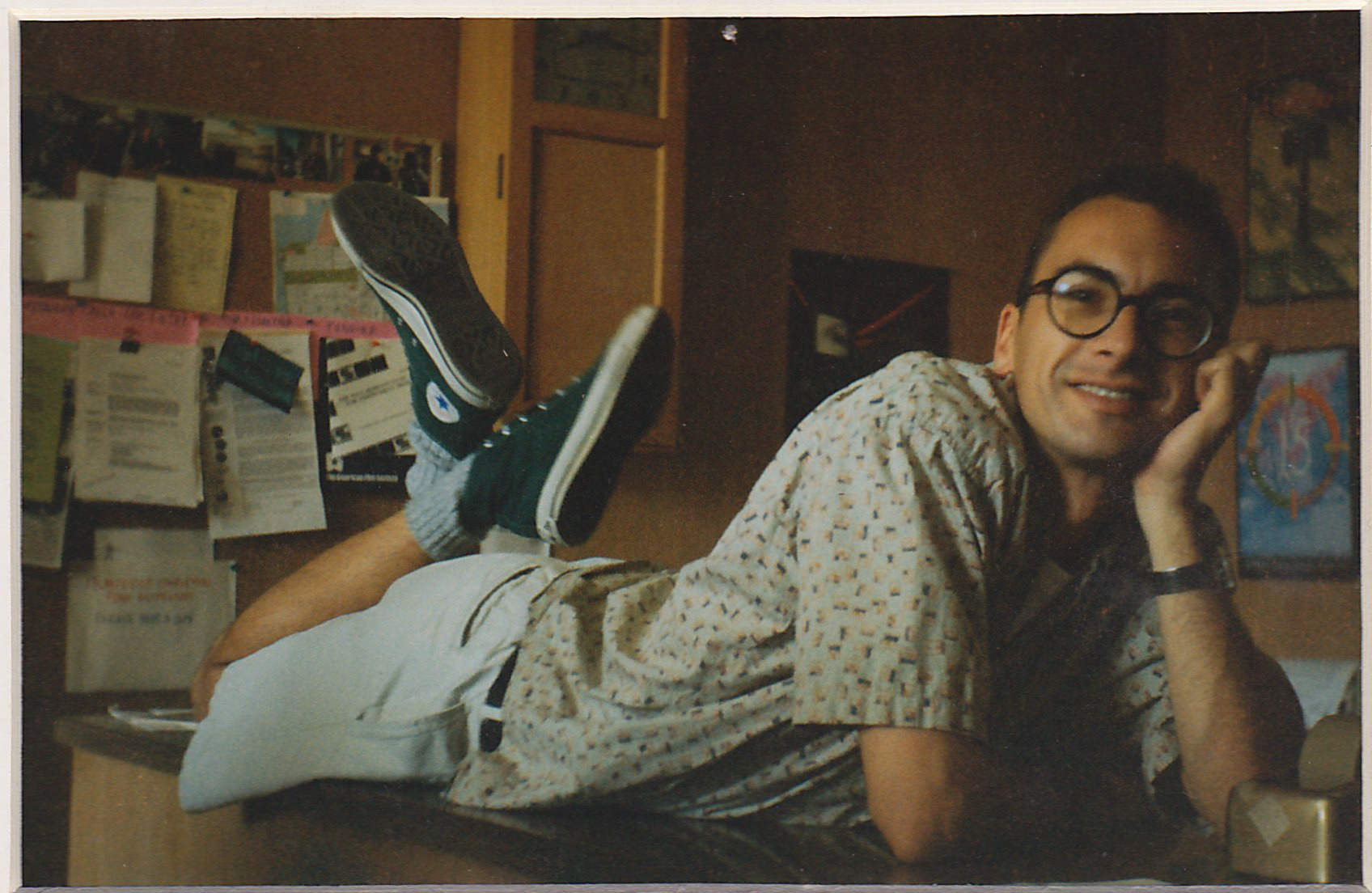 Candid photo of Mark Finch at the Frameline offices in 1992.